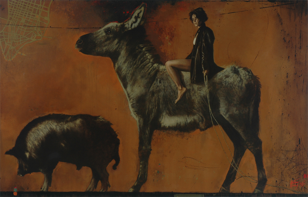 Llegando a Nueva York Óleo/Tela